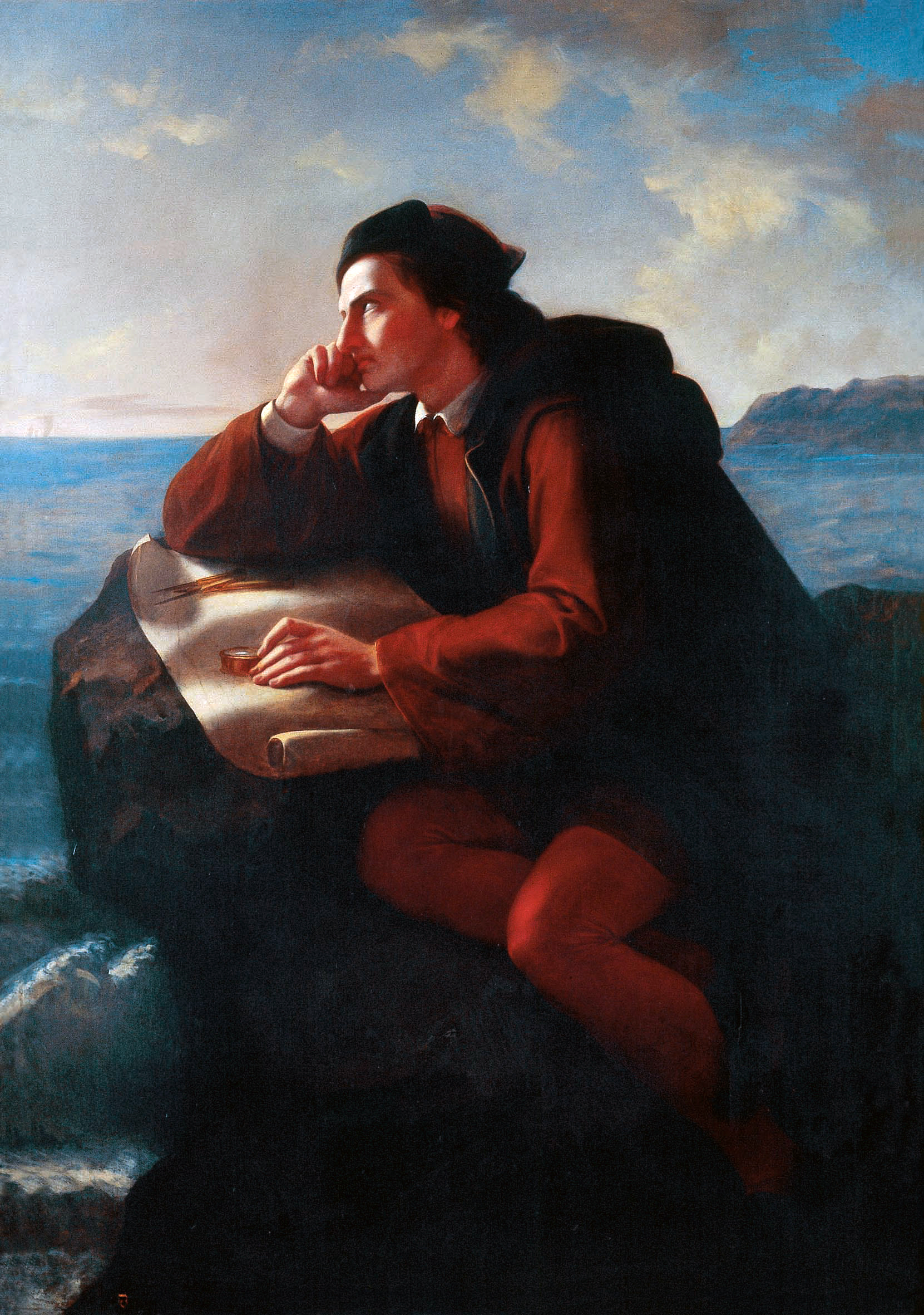 Inspiration of Christopher Columbus.label QS:Les,"Inspiracion de Cristobal Colon." label QS:Len,"Inspiration of Christopher Columbus."